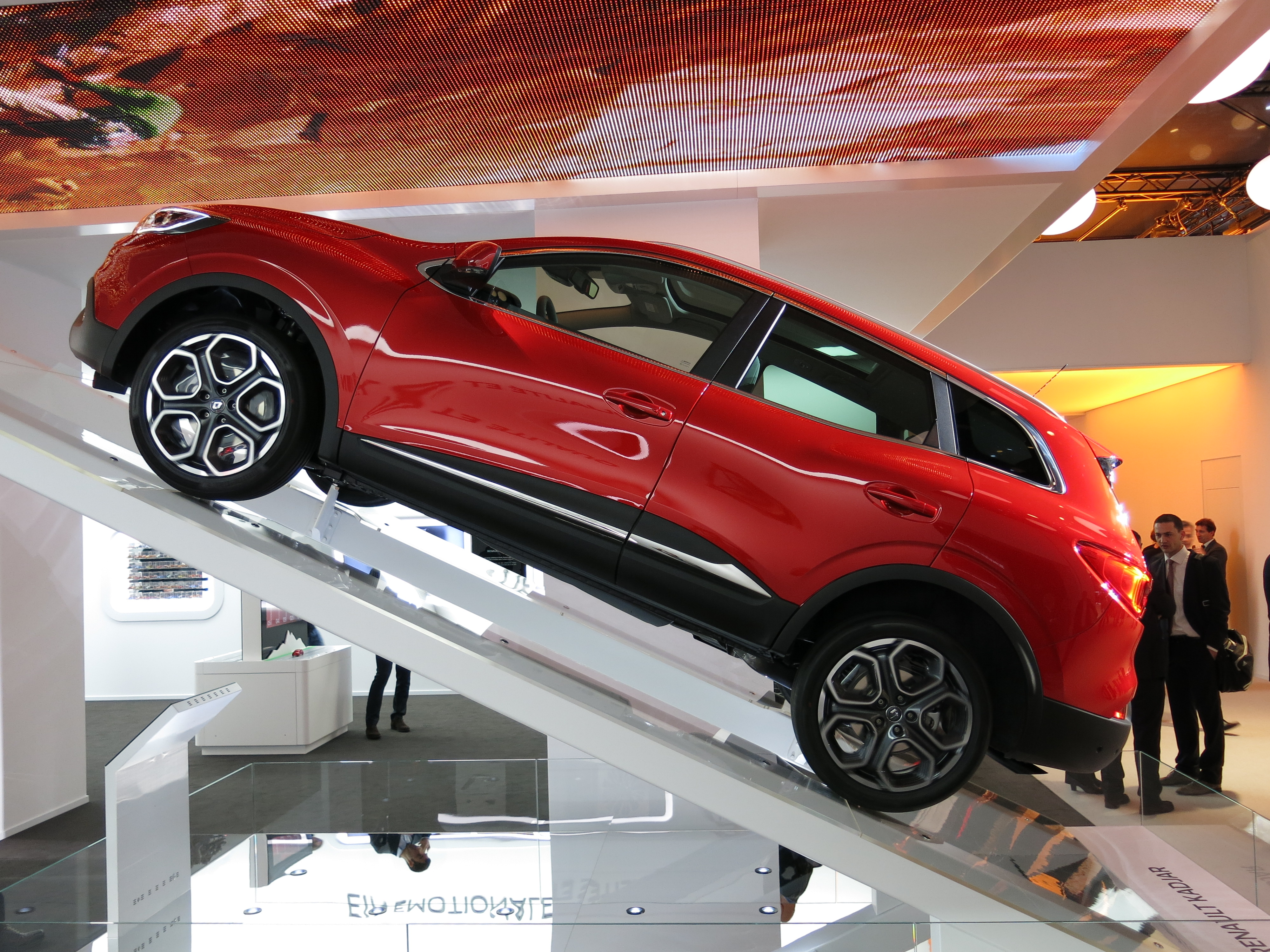 Geneva Motor Show 2015 (photo taken on the first press day)